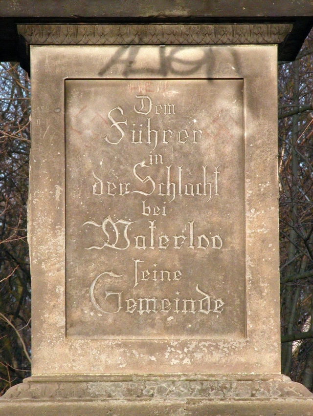 Brunswick, Germany: Inscription on the Elias Olfermann-Monument